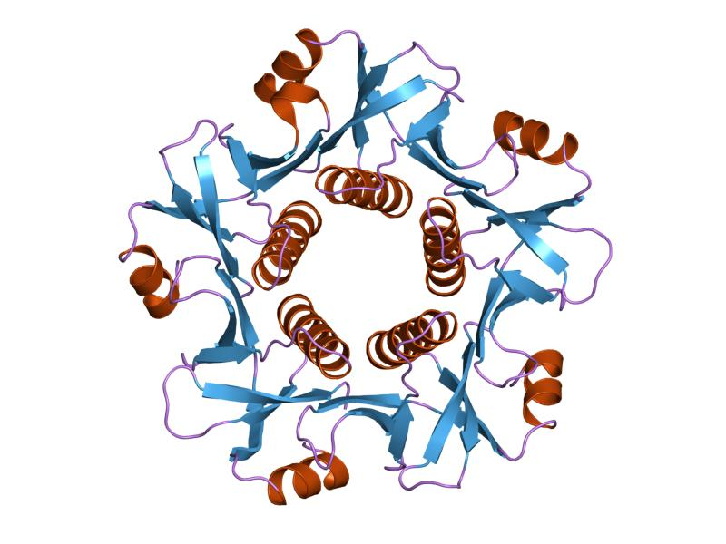 Cartoon representation of the molecular structure of protein registered with 1qb5 code.